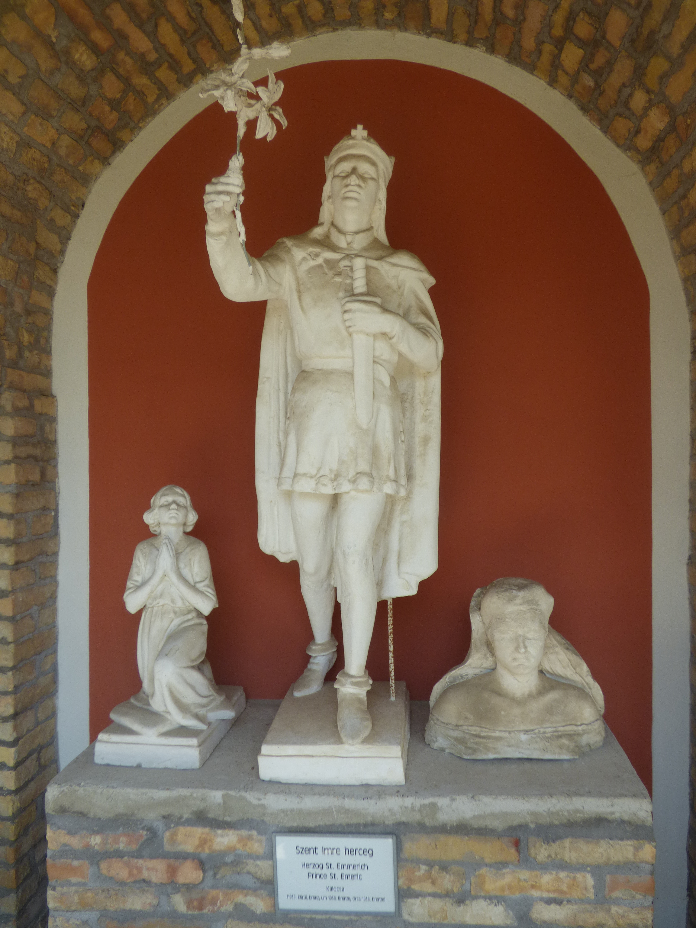 Szent Imre herceg szobra a Bory-várban